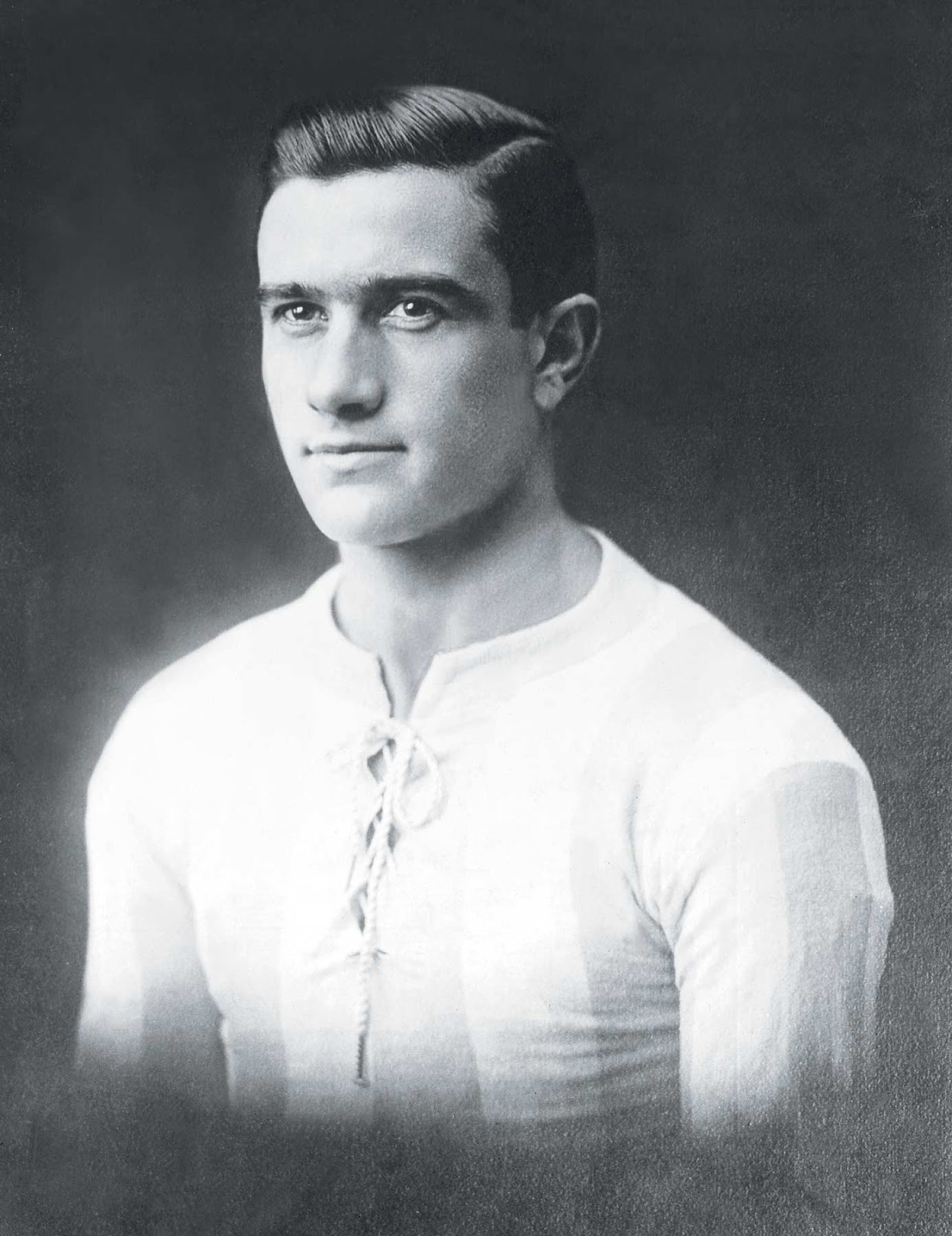 Argentine football player, Francisco Olazar, during his years in Racing Club, where he played from 1910 to 1922, winning many titles with the club.